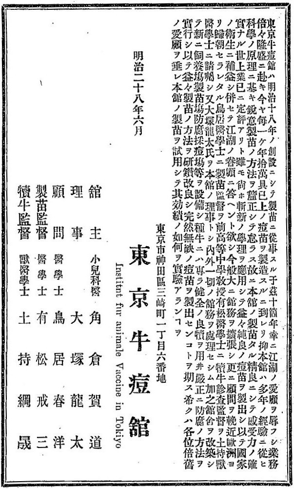 SUMINOKURA_1